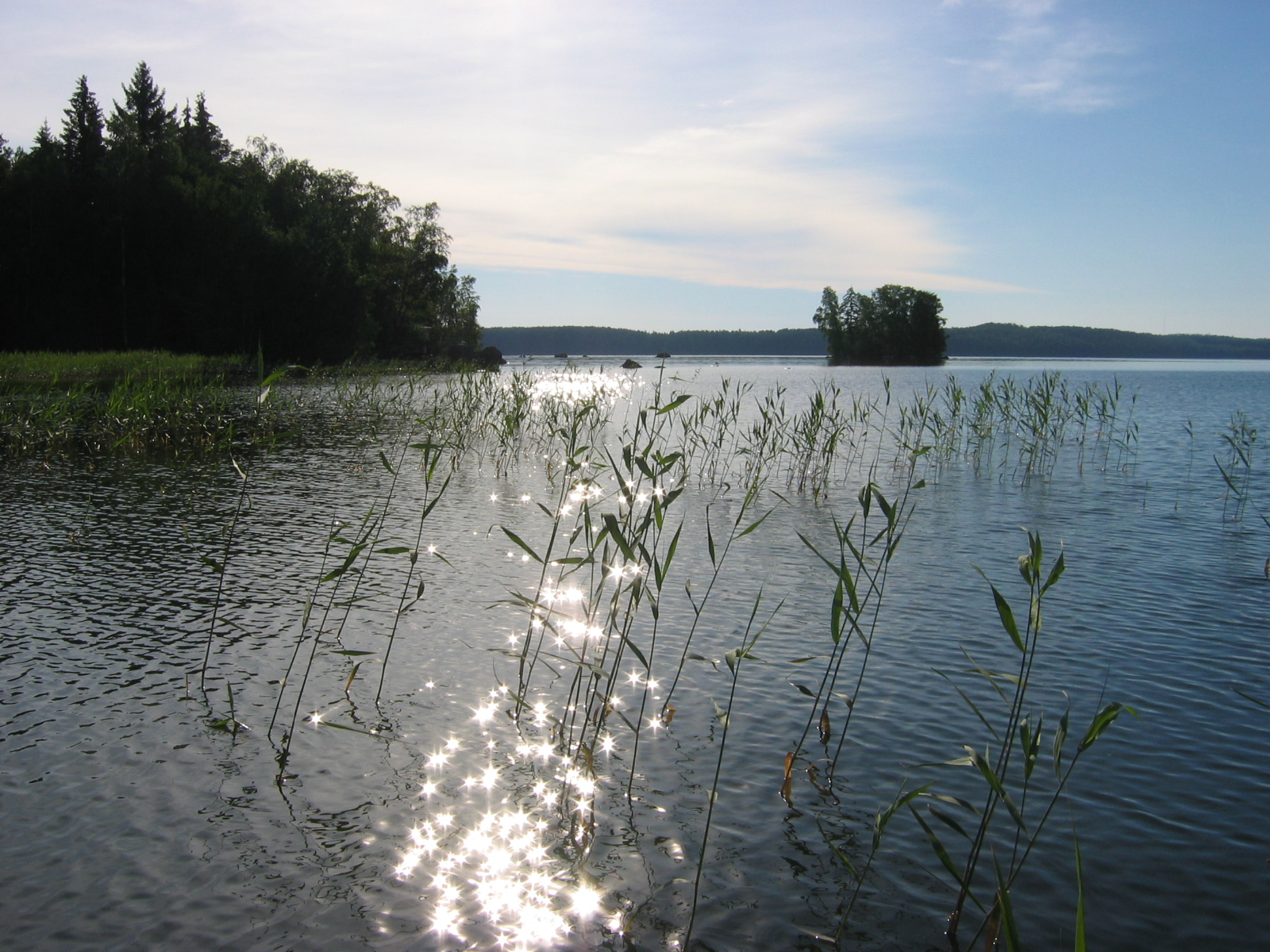 Roine in Kangasala, Finland